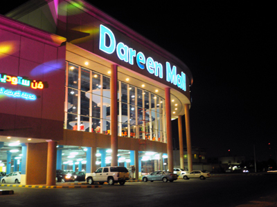 Dareen Mall